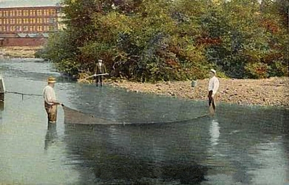 Winnipesaukee River in 1907, Franklin, NH; from an old postcard.